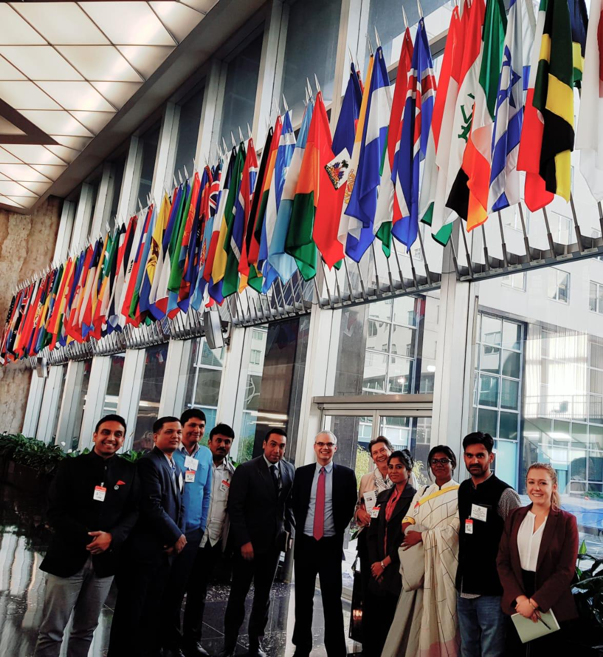 Kunal Sarangi with other IVLP delegates